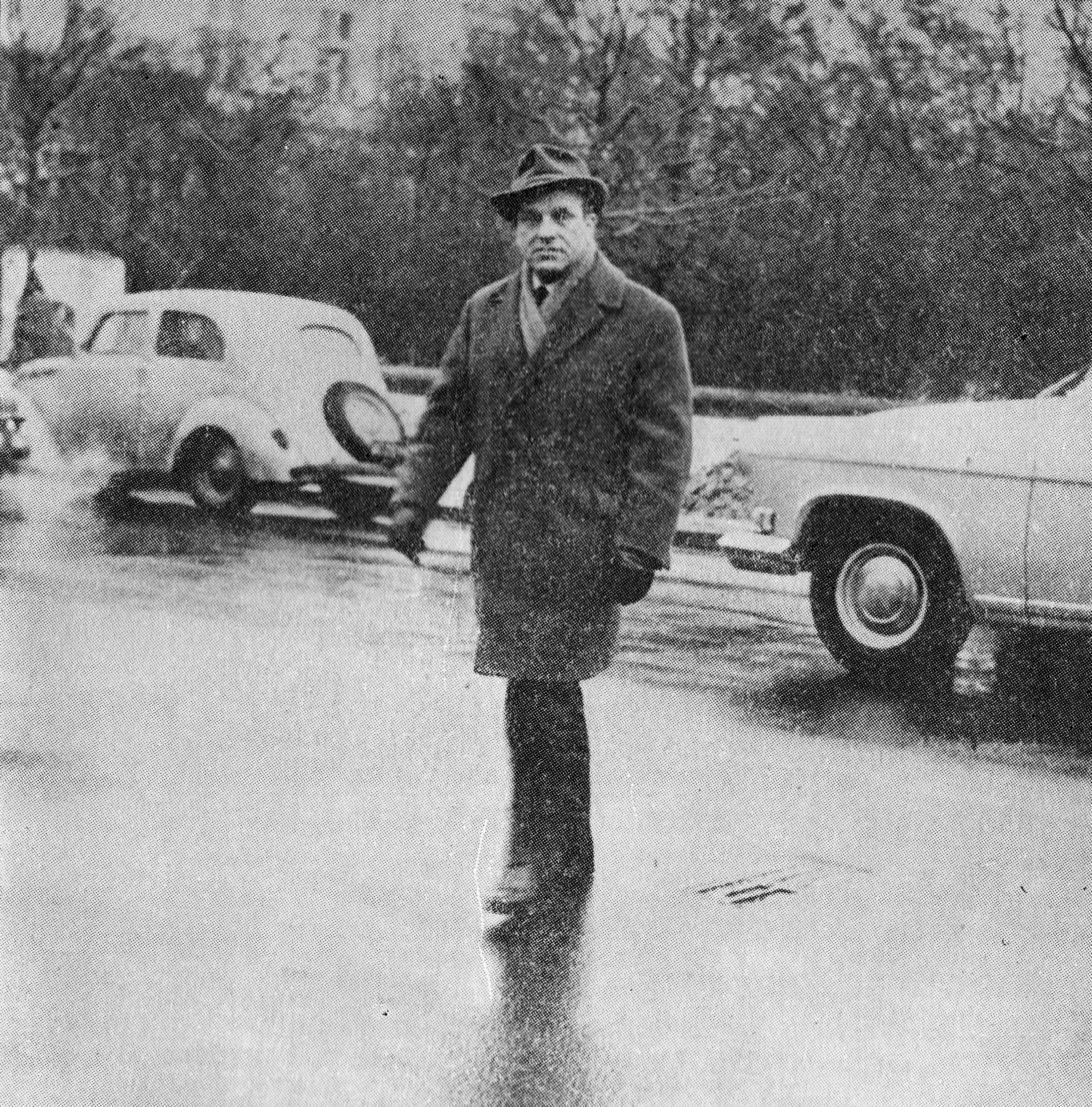 Michał Issajewicz "Miś" in the place of Operation Kutschera